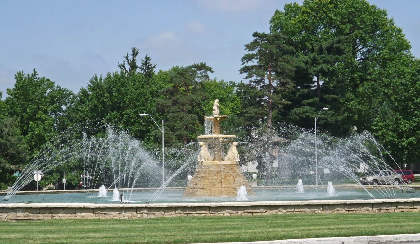 Meyer Circle ("Seahorse") Fountain, Kansas City, Missouri